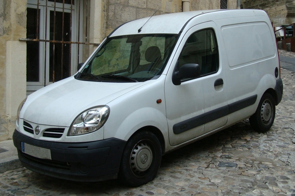 Nissan Kubistar, photographed in Montpellier, France